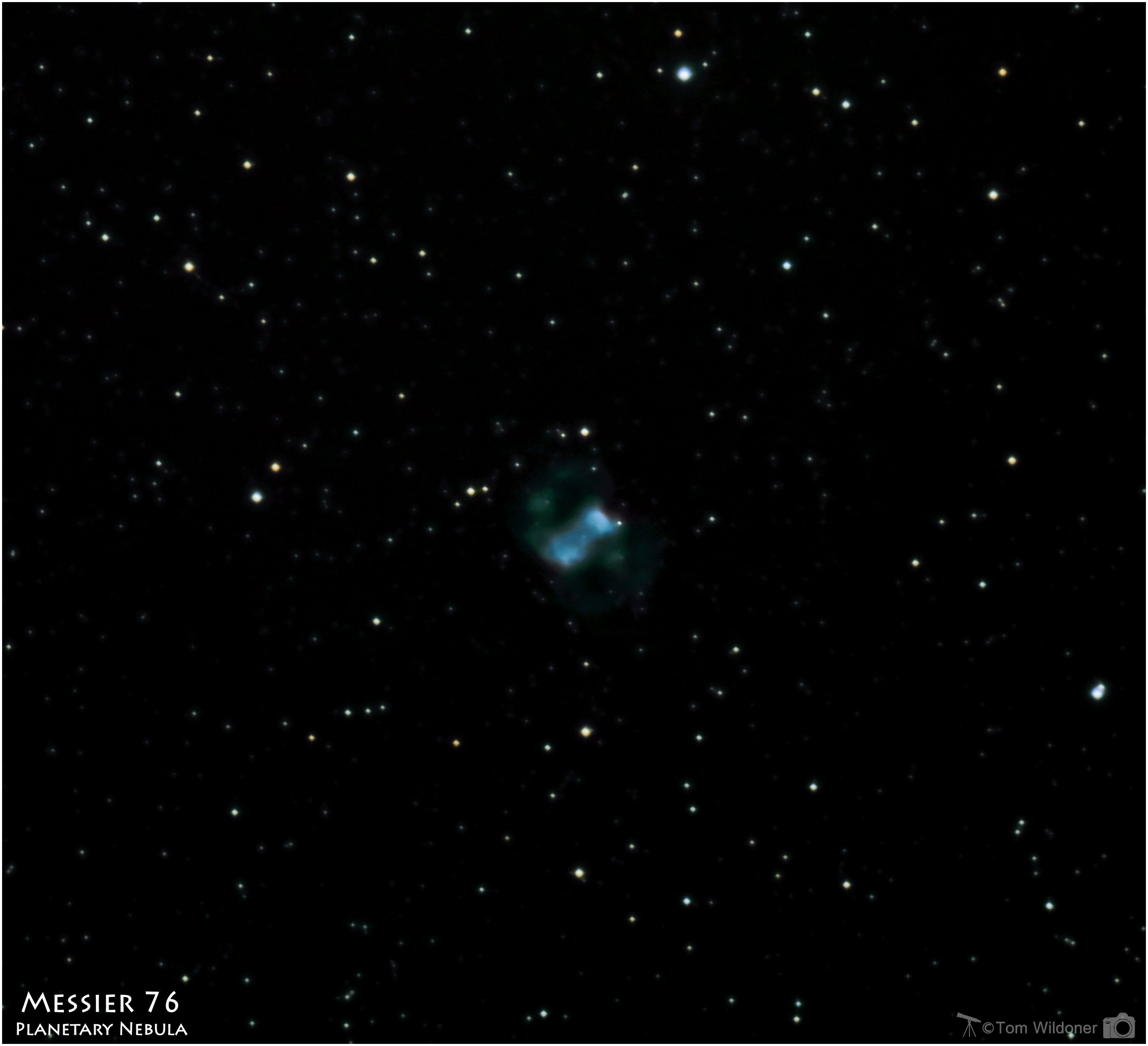 It took some effort to bring out any details in this Messier object! M76 is a planetary nebula found in the constellation Perseus, it has a magnitude of 10.1 and is about 2,500 light years away. Initial imaging on October 19th produced a very flat image with no details, an addition 25 minutes of data was obtained on November 4th, more is needed. Tech Specs: This image is composed of 180 x 15 second images (45-minutes total) at ISO 3200 with 10 x 15 second dark frames and 10 x 1/4000 second bias frames. Equipment: Meade LX90 12” telescope and Canon 6D camera mounted on a Celestron CGEM-DX mount, unguided. Software: DeepSkyStacker, ImagesPlus, and Adobe Lightroom. Imaging was done on October 19 and November 4, 2016. Location: Weatherly, Pennsylvania. Online Resources: Wikipedia ( SEDS ( APOD (